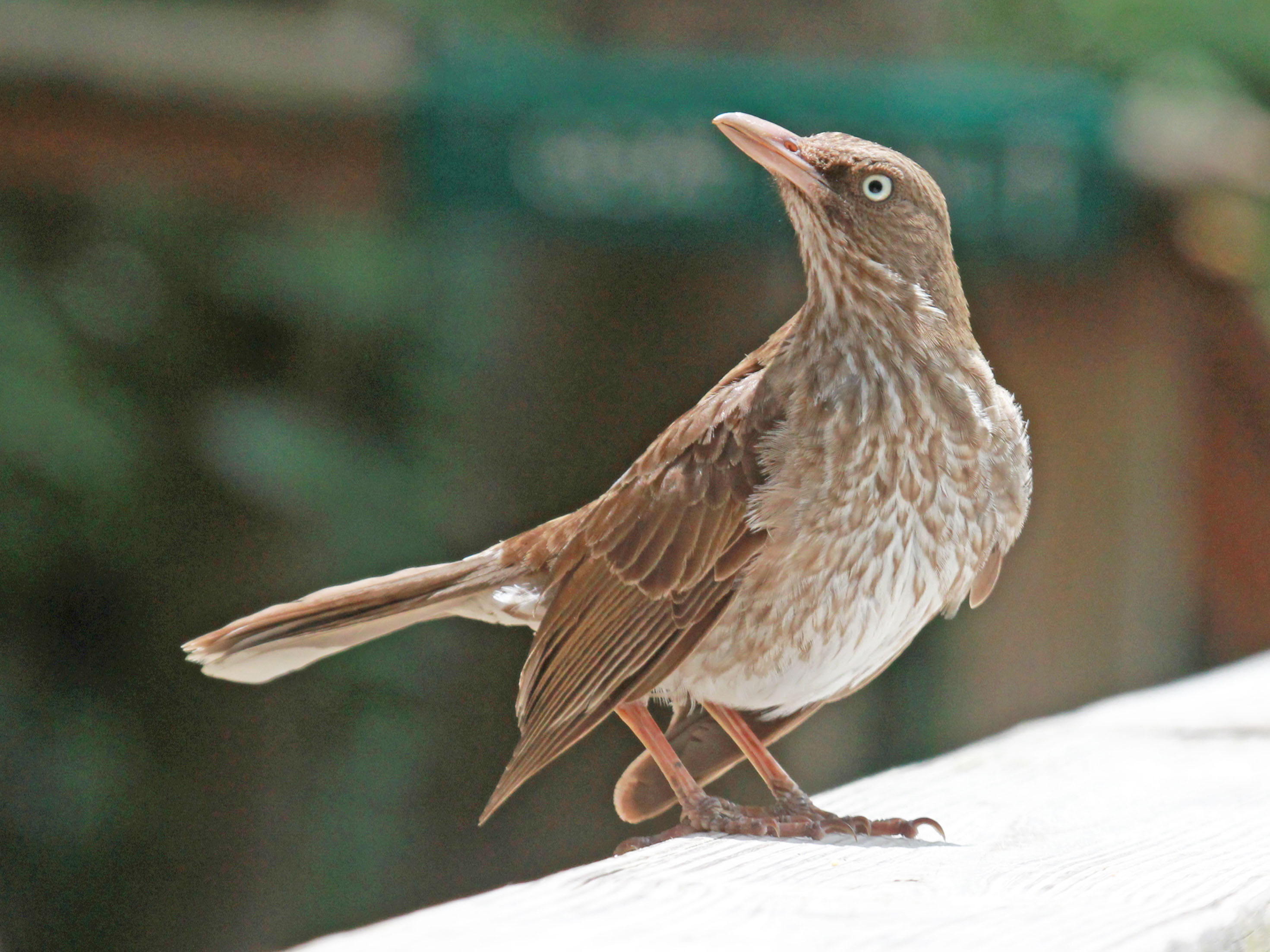 Pearly-eyed Thrasher (Margarops fuscatus) on St. Johns Island, US Virgin Islands